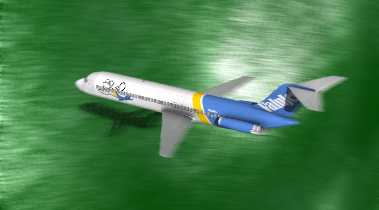 Last second of ValuJet Flight 592 (1996) illustrated.